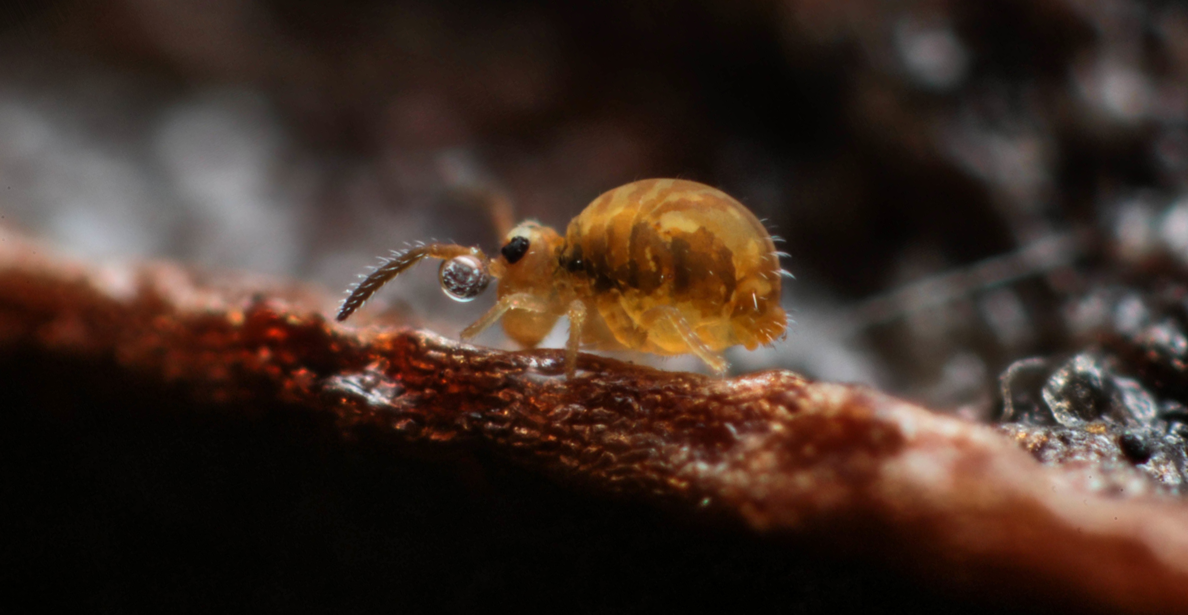 The reticulata form of Sminthurinus aureus. Original description on Flickr: This chap is from my sister's garden the other day, a three photo stack. S. aureus f. reticulata is spreading across the country surprisingly quickly, from its first spotting a few years ago. This I think is the furthest north so far, in Yorkshire. I also found them to be pretty common in Manchester as I went up country.